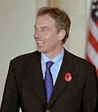 Cropped image of Tony Blair at the White House in November 2001